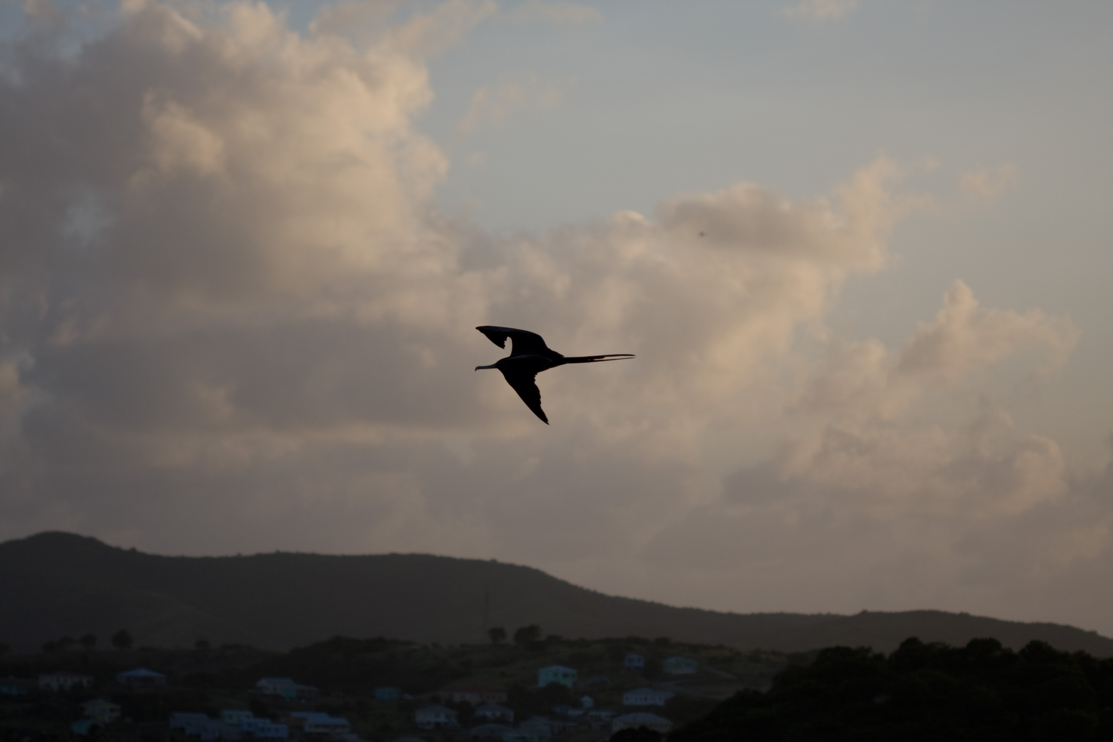 Curious birds hovering around a cruise ship, Antigua